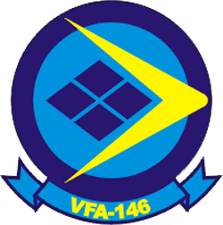 Insignia of the U.S. Navy Strike Fighter Squadron 146 (VFA-146) "Blue Diamonds". The insignia was approved on 29 August 1968. The squadron continued to use its old insignia approved for VA-146. The squadron did not request a designation change to its banner following its redesignation to VFA-146 on 21 July 1989.